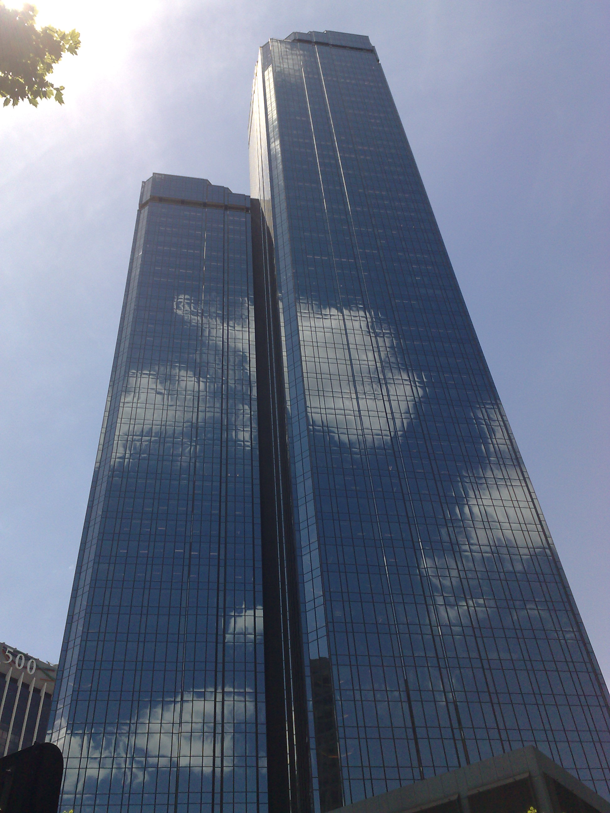 The Rialto Towers, from the base of the building.